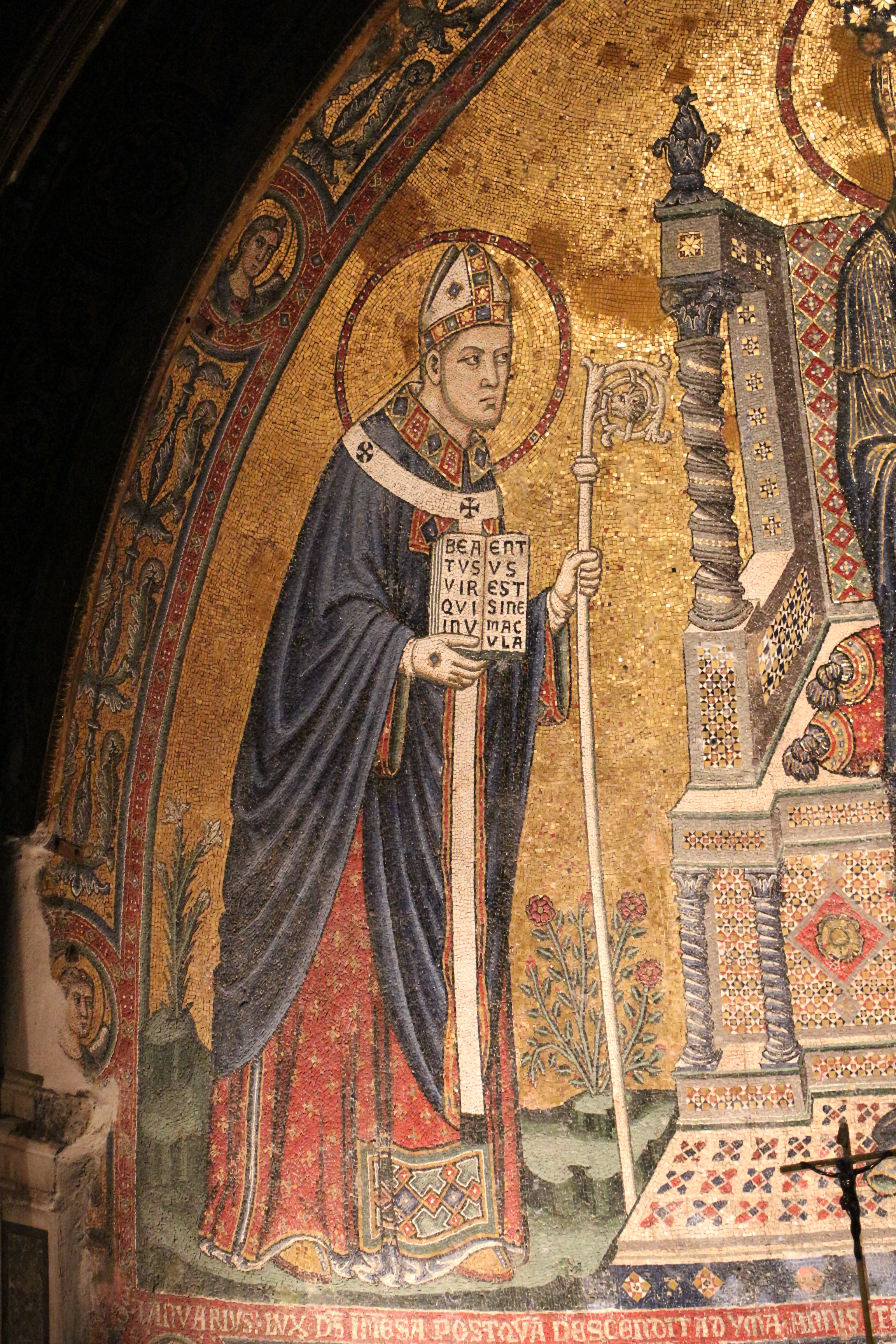 Cathedral (Naples) - Interior